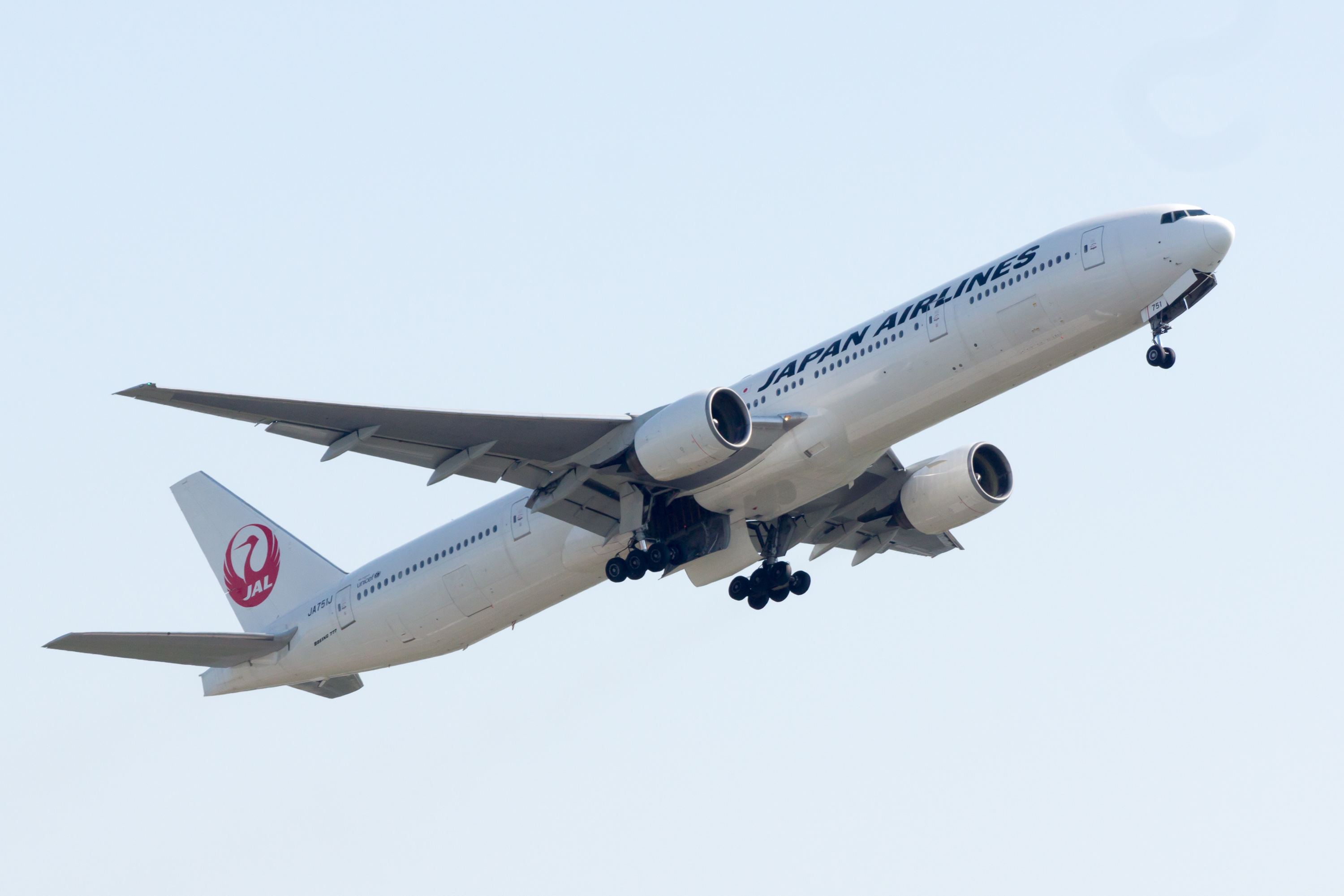 Japan Air Lines / 日本航空 Boeing 777-346 JA751J JL2087, Departed to Naha Osaka Itami Int'l Airport